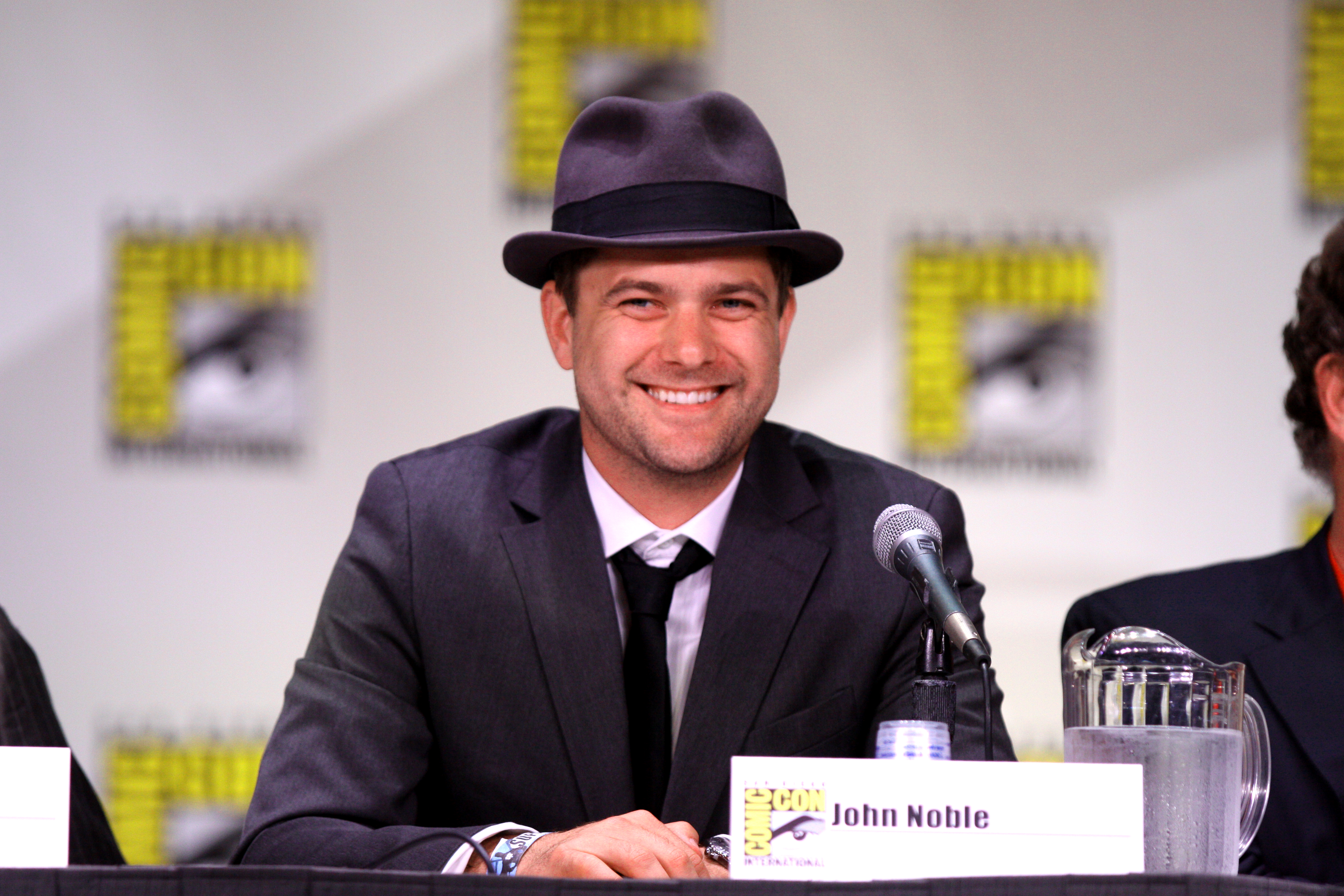 Joshua Jackson at the 2011 San Diego Comic-Con International in San Diego, California.